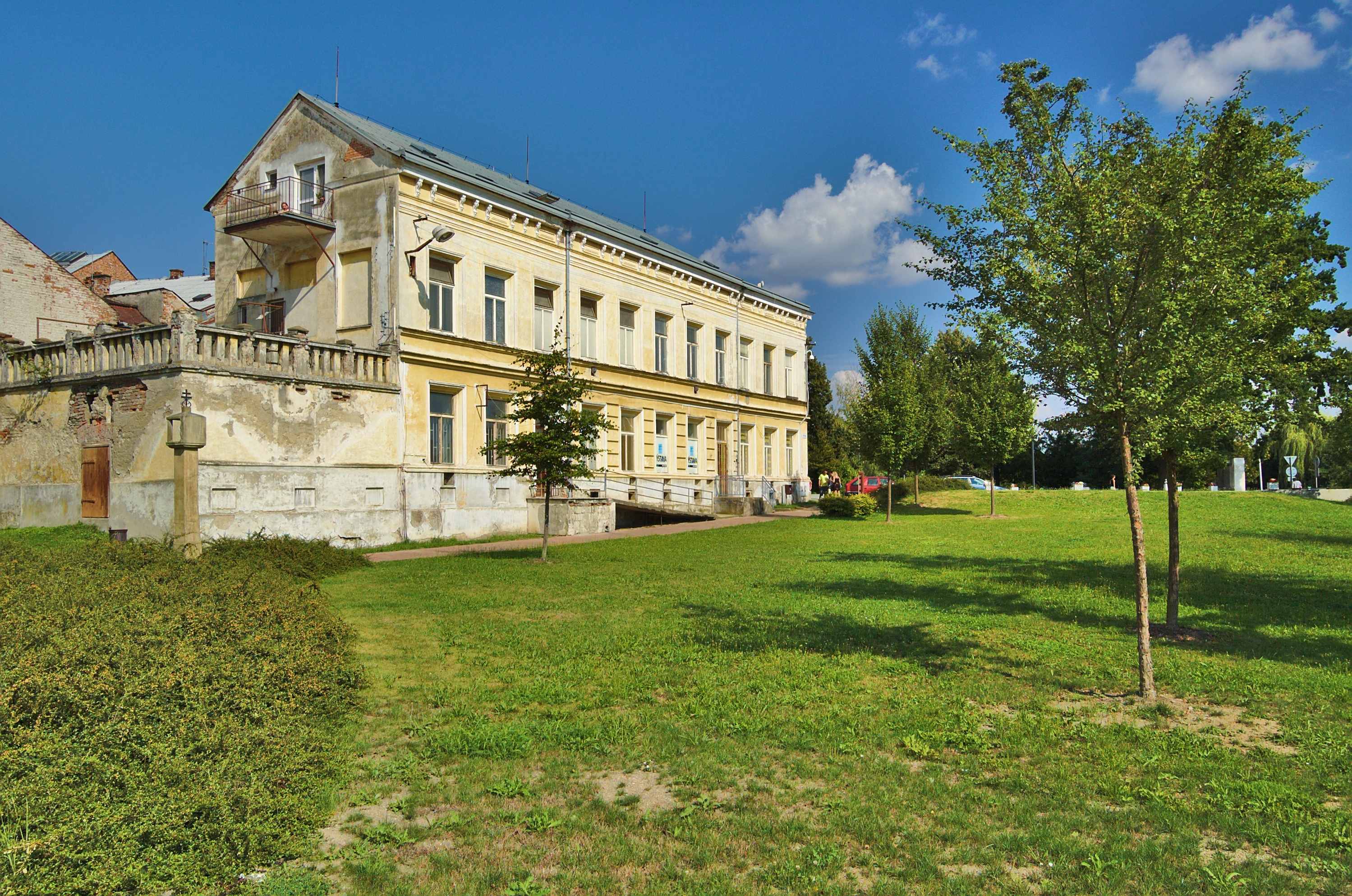 1. máje 800, Litovel, the Czech Republic. There are depositories of the Museum Litovel inside the building.